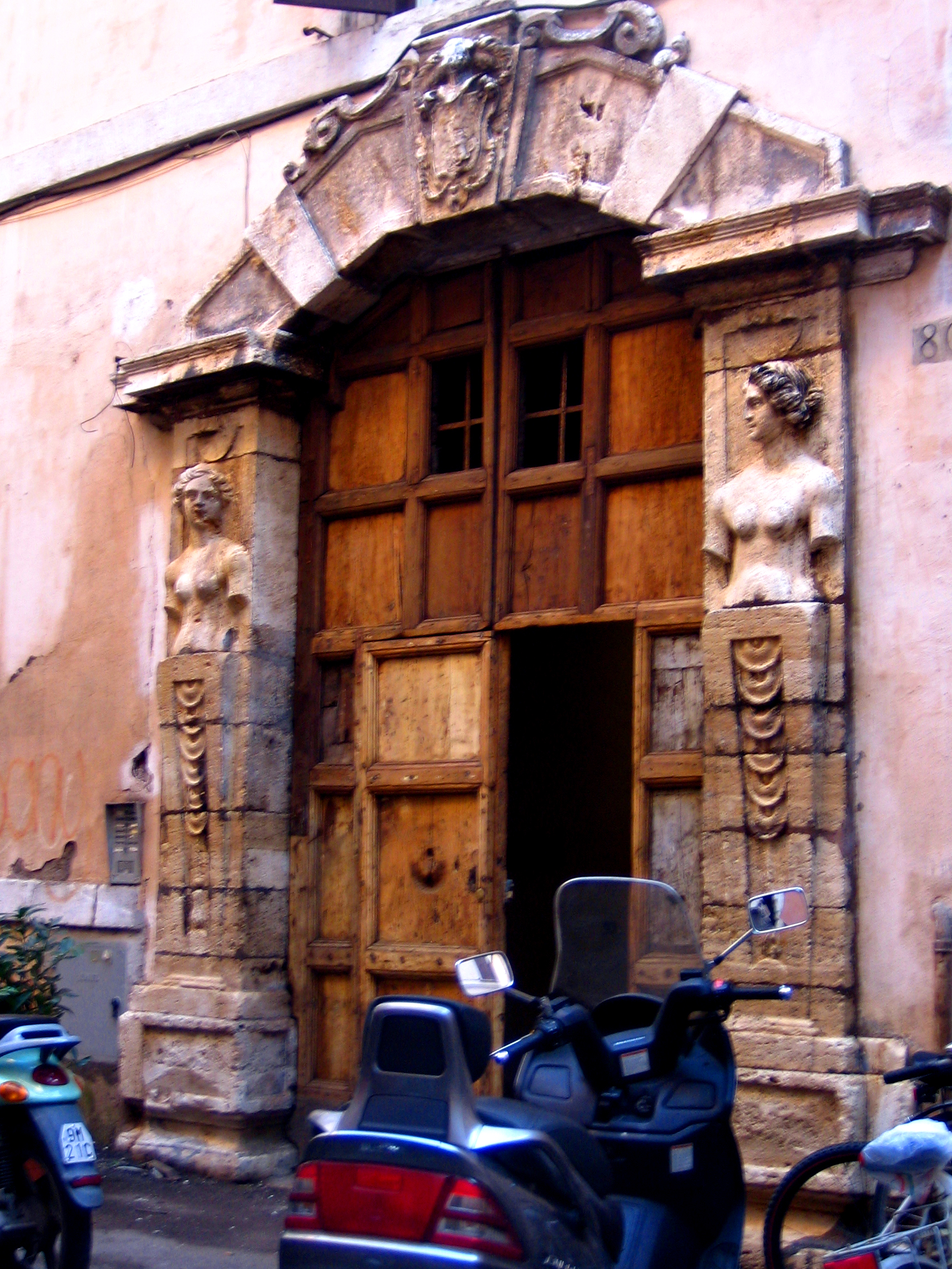 I've always admired this somehow rather French-looking doorway just off via del Gesù. There's something very appealing about the clunky caryatids.